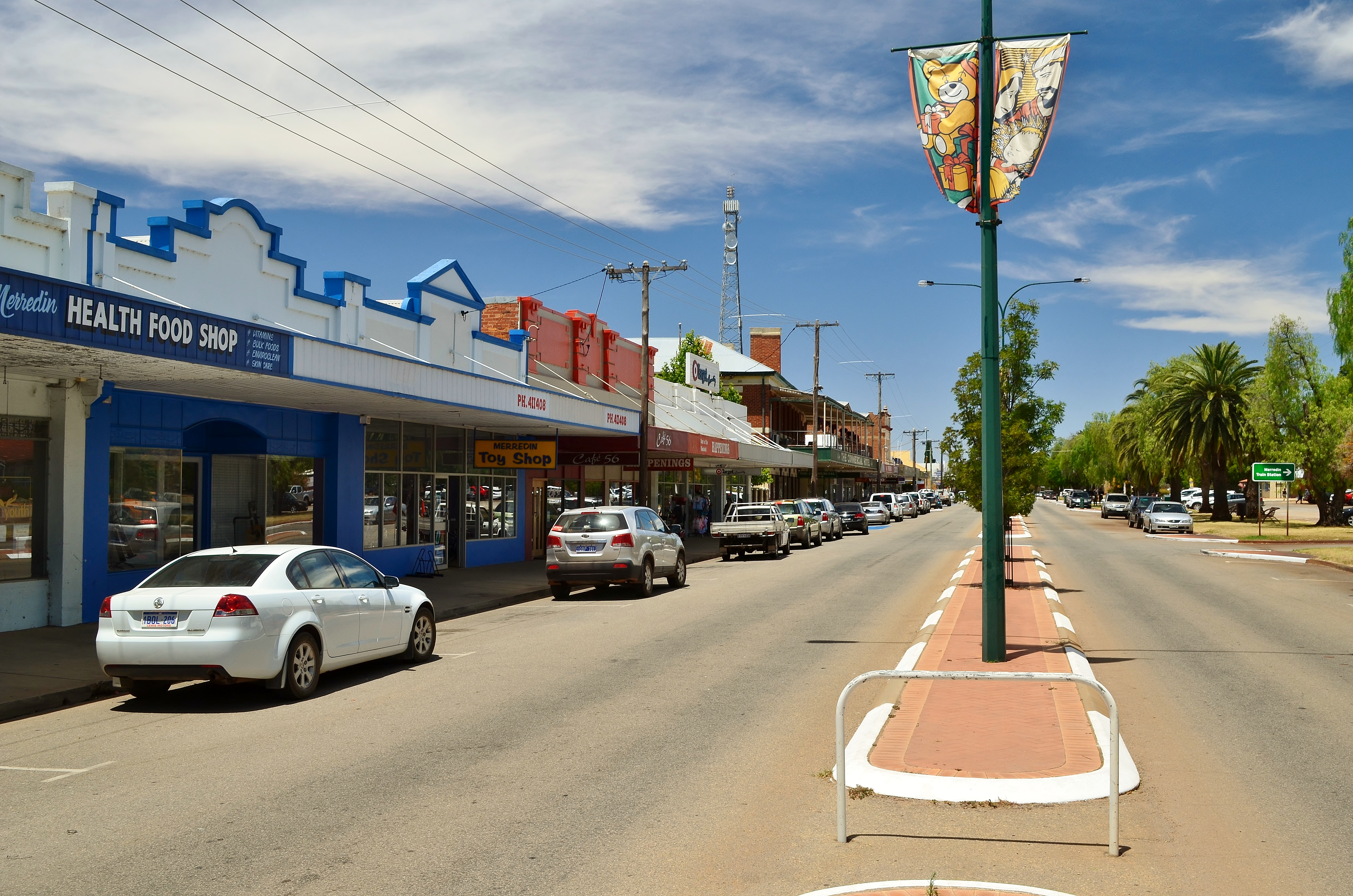 A view of Barrack Street, Merredin, Western Australia, taken from outside the (present day) Merredin railway station looking east. The two storey building near the centre of the image is the Commercial Hotel.